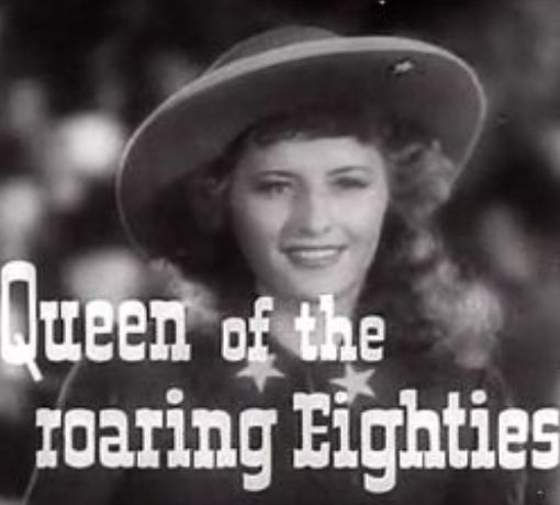 Cropped screenshot of Barbara Stanwyck from the trailer for the film Annie Oakley